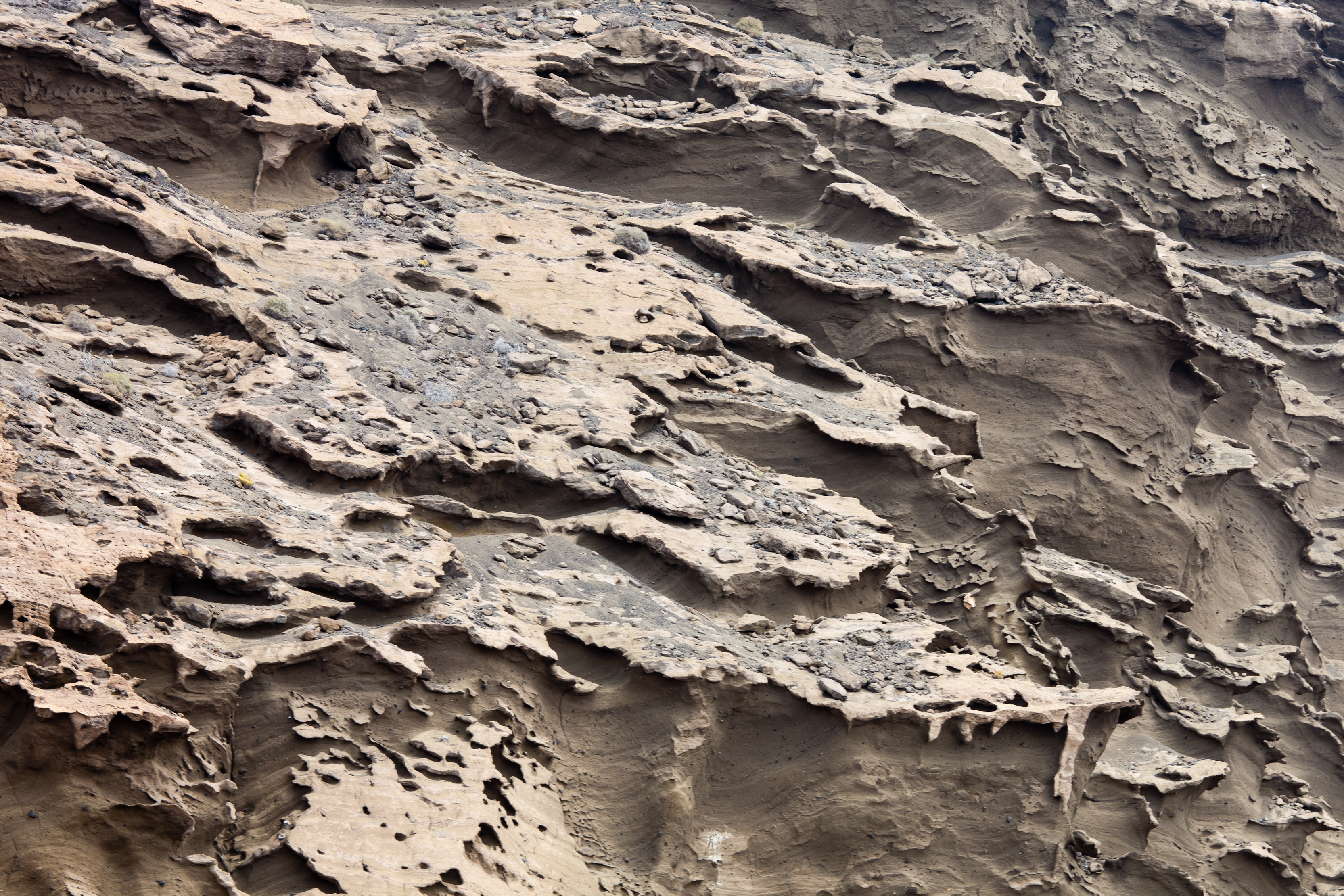 Wall of the mountain. Charco de los Clicos, El Golfo, Lanzarote, the Canary Islands, Spain